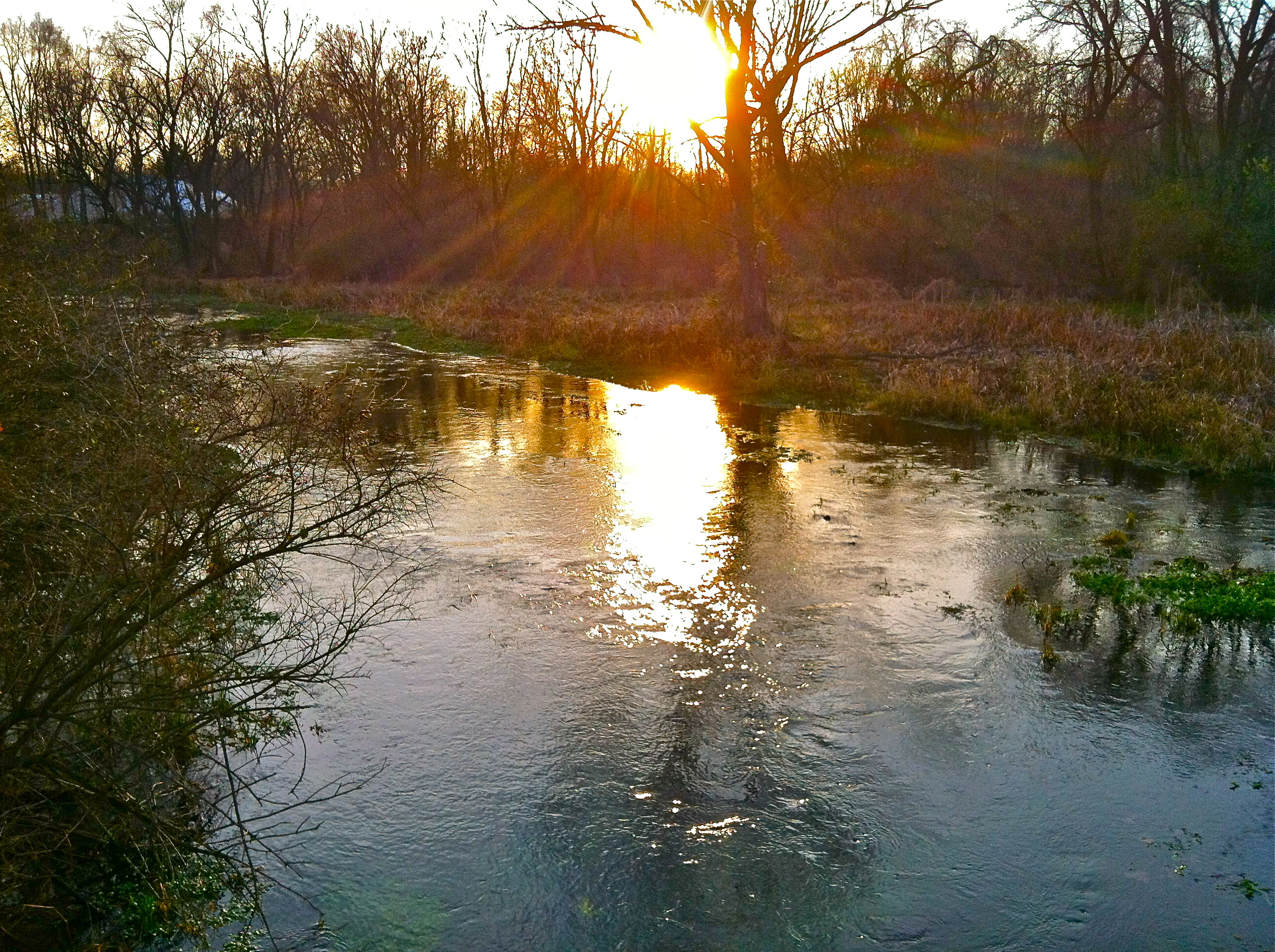 Letort stream at park entrance